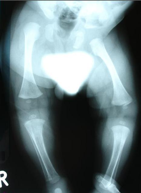 "AAnteroposterior lower limb radiograph showed epiphyseal dysplasia of the capital femoral epiphyses, hypoplastic ileae, horizontally dysplastic acetabulae, coxa vara, shortening of the femoral necks, broad femora and tibiae with bilateral but asymmetrical degrees of mild bowing. In addition the angulation of the femora was associated with internal thickening of the cortex."